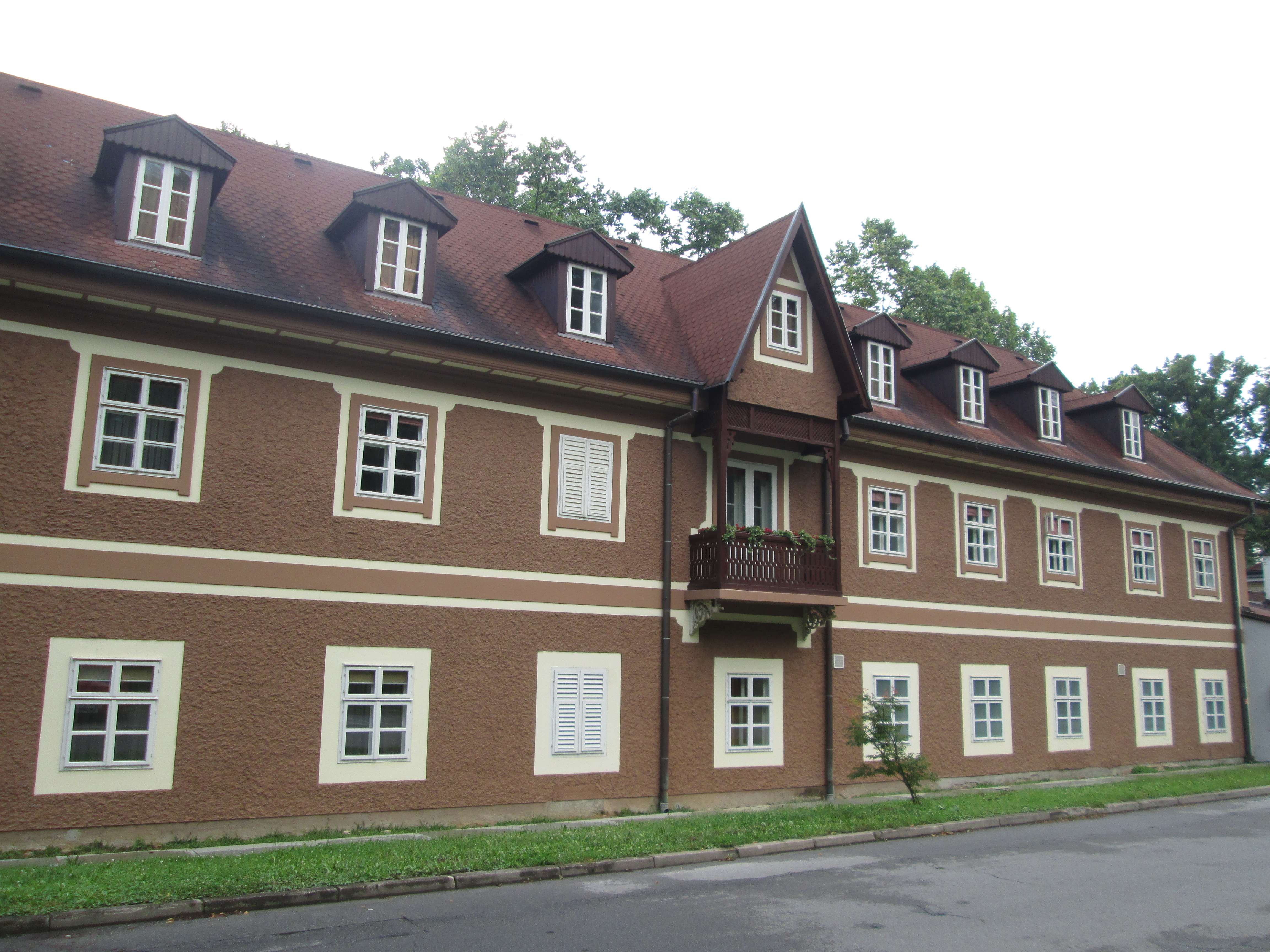 Daruvar Spa in Croatia